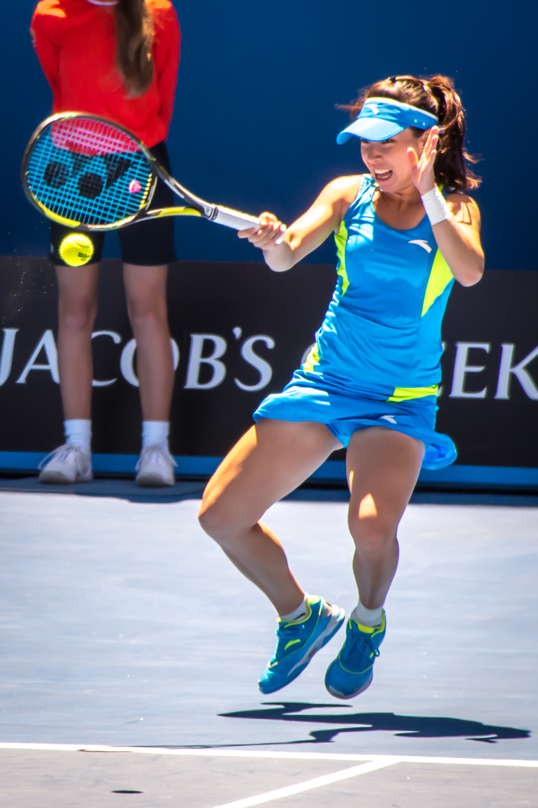 Jie Zheng (CHN) during her 2nd round mixed doubles 3-set win with Scott Lipsky (USA) over the top seeds Anna-Lena Groenefeld (GER) and Alexander Peya (AUT) at the 2014 Australian Open on Margaret Court Arena.